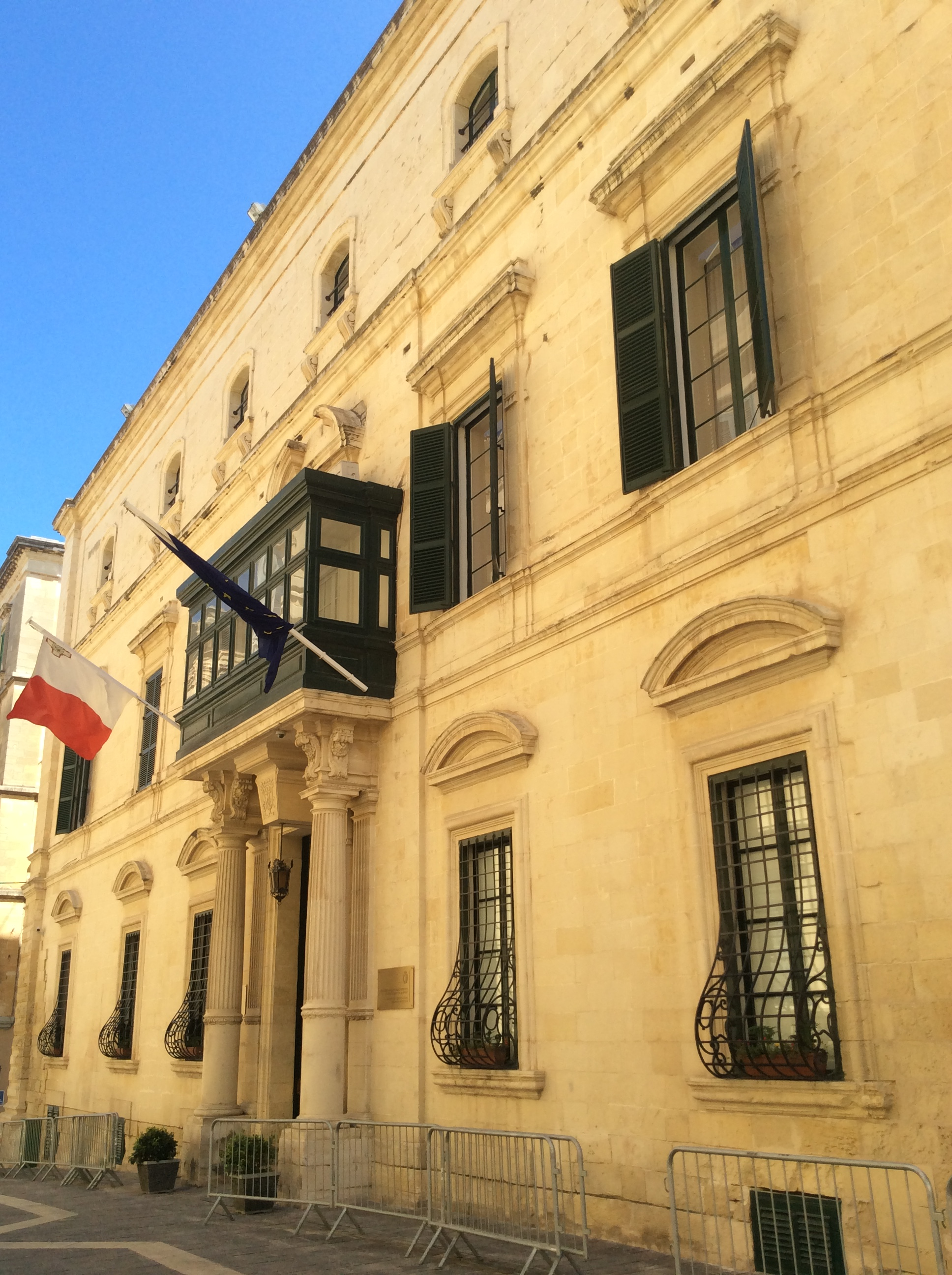 Palazzo Parisio This media is about Maltese cultural property with inventory number 01131.